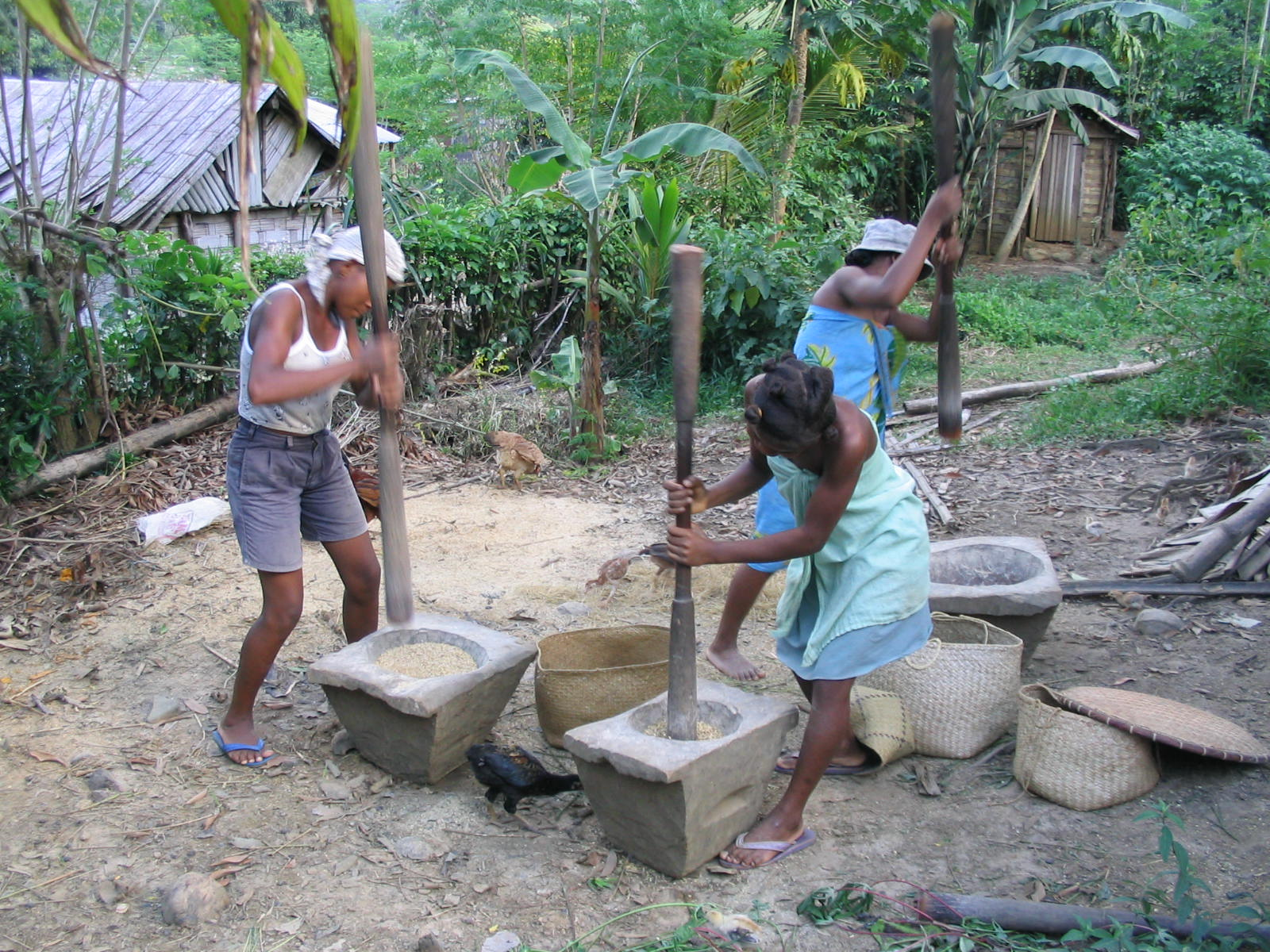 Malagasy (near Marojejy National Park) pounding rice in giant wooden mortars to dehull it.